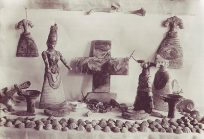 Things from The Temple Repositories of Knossos palace, including two famous snake goddesses soon after its discovering in 1903.